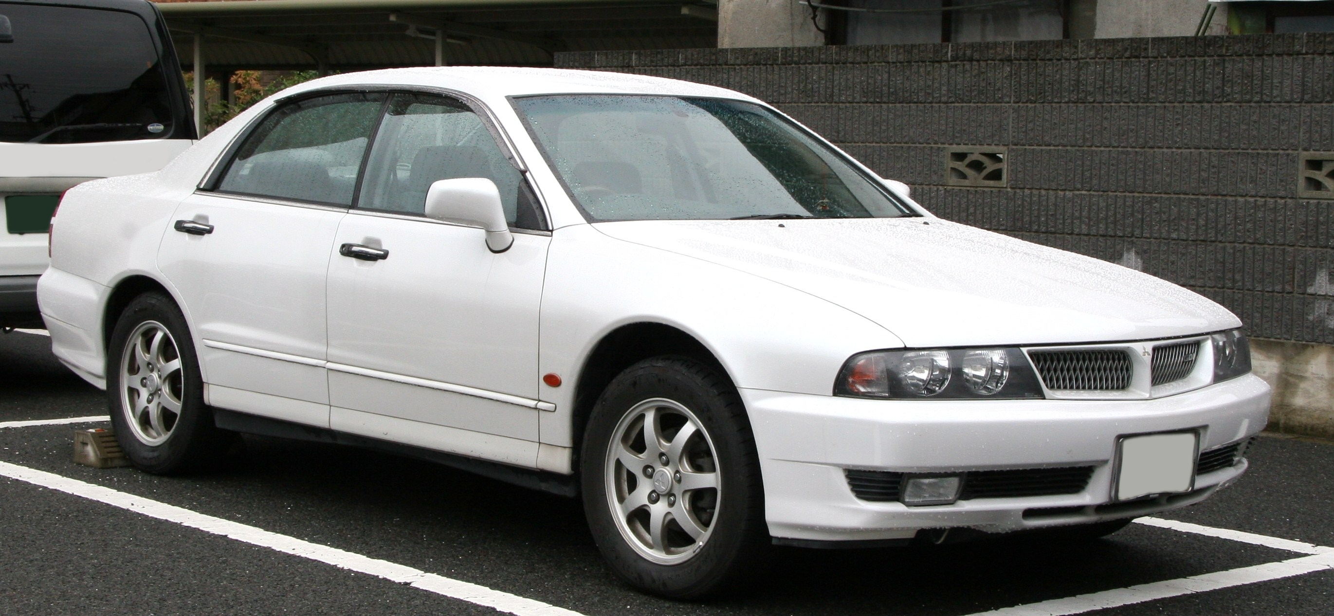 Mitsubishi Diamante